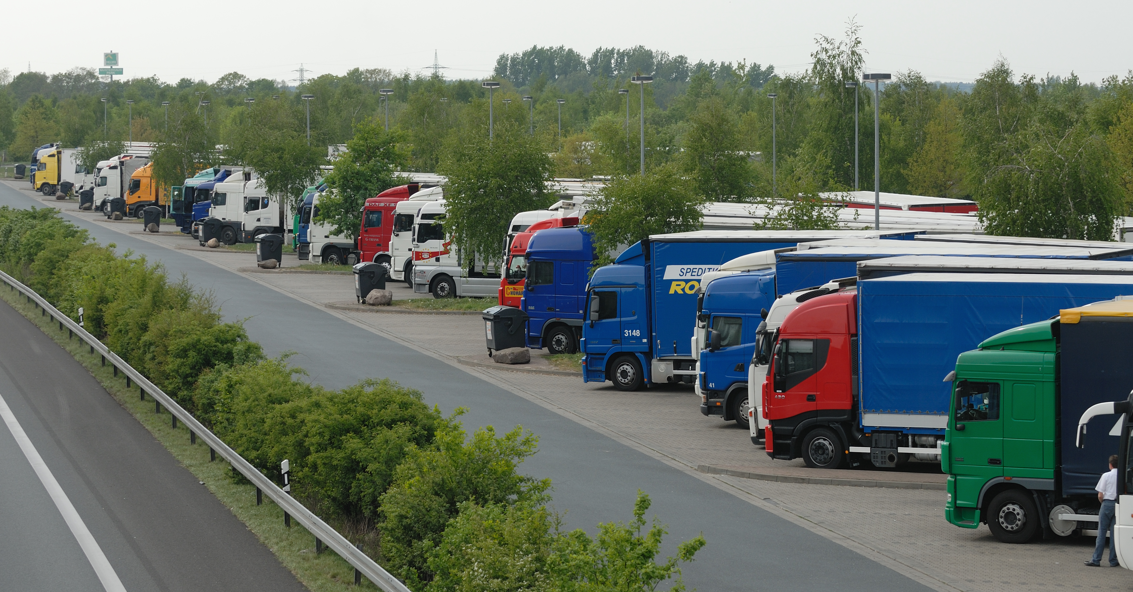 Trucks parking on service area "Lehrter See" at A 2 highway.